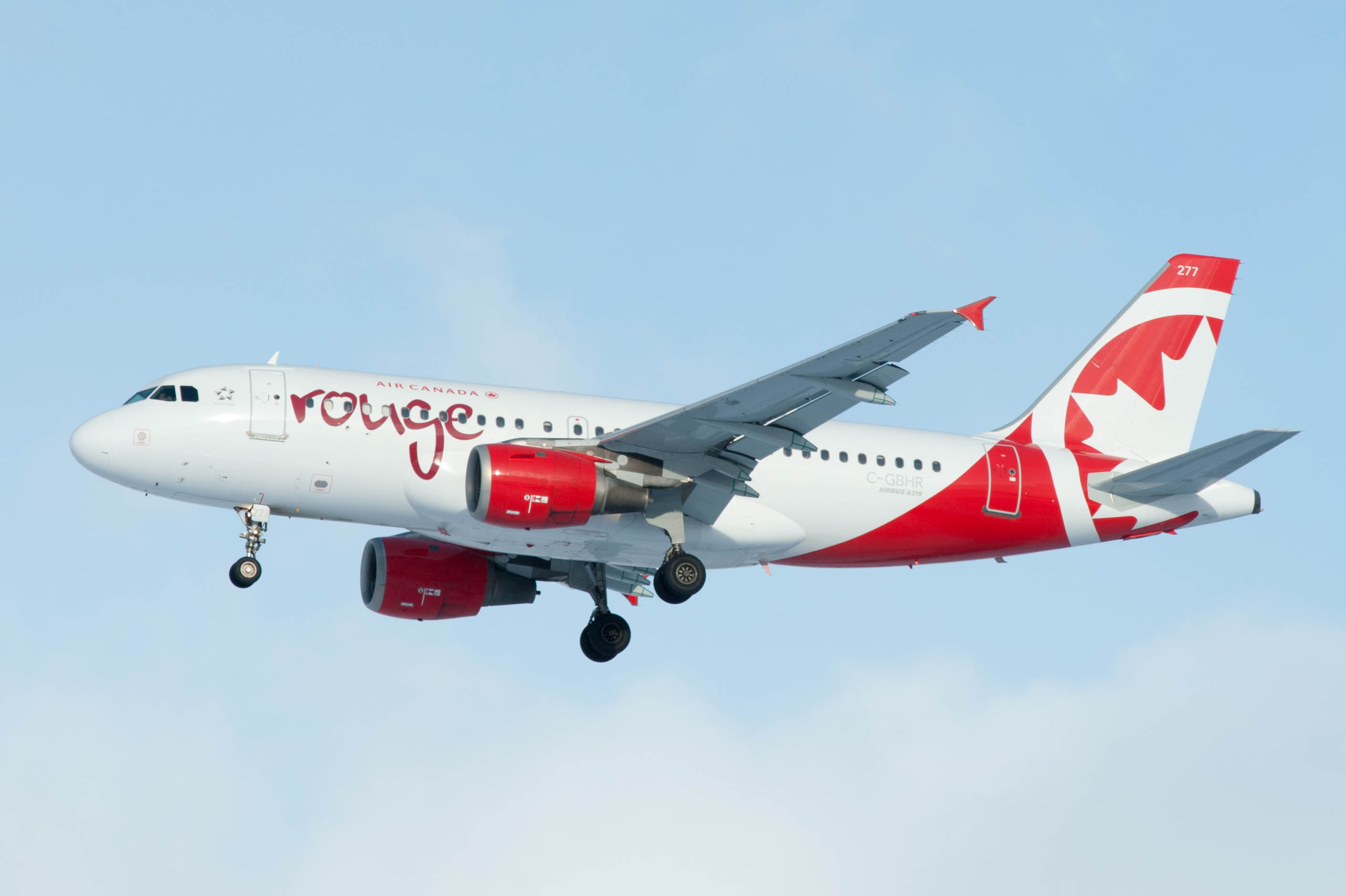 rouge baby bus on final to Toronto-Pearson.